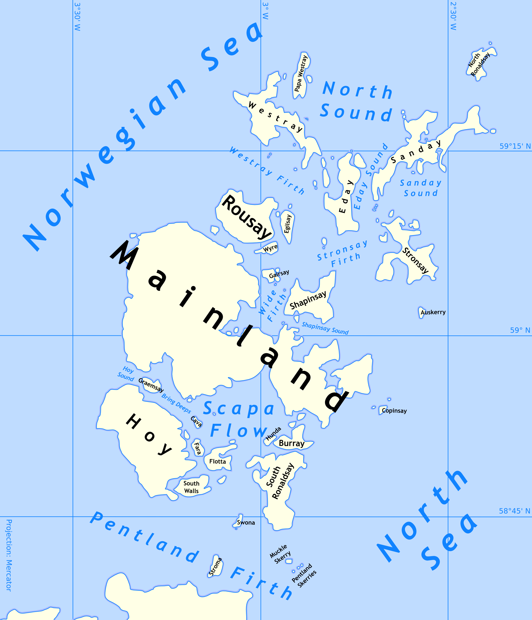 Outline map of the Orkney Islands in Scotland